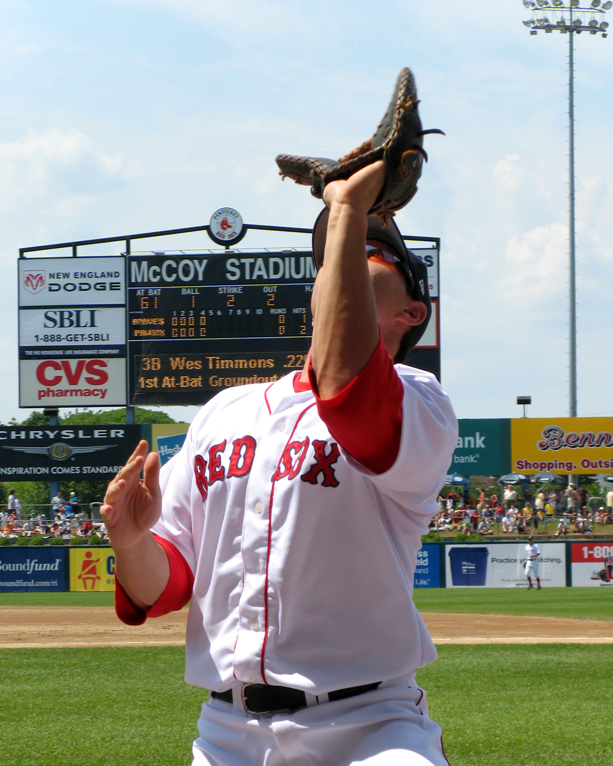 Jeff Bailey